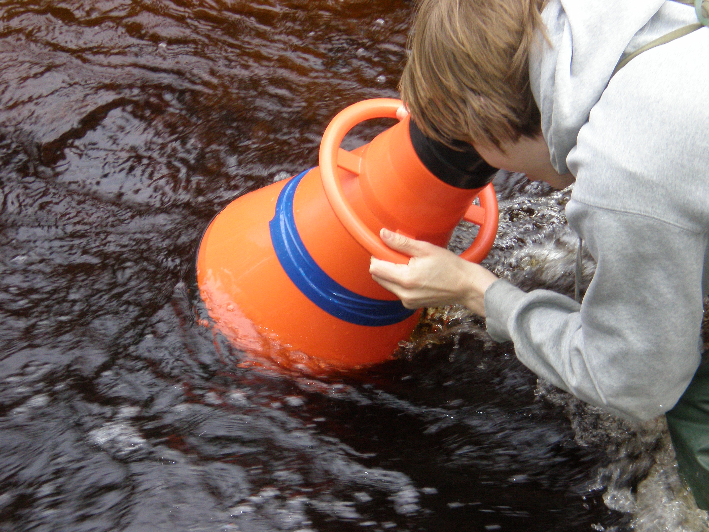 Making an inventory of margaritifiera margaritifiera